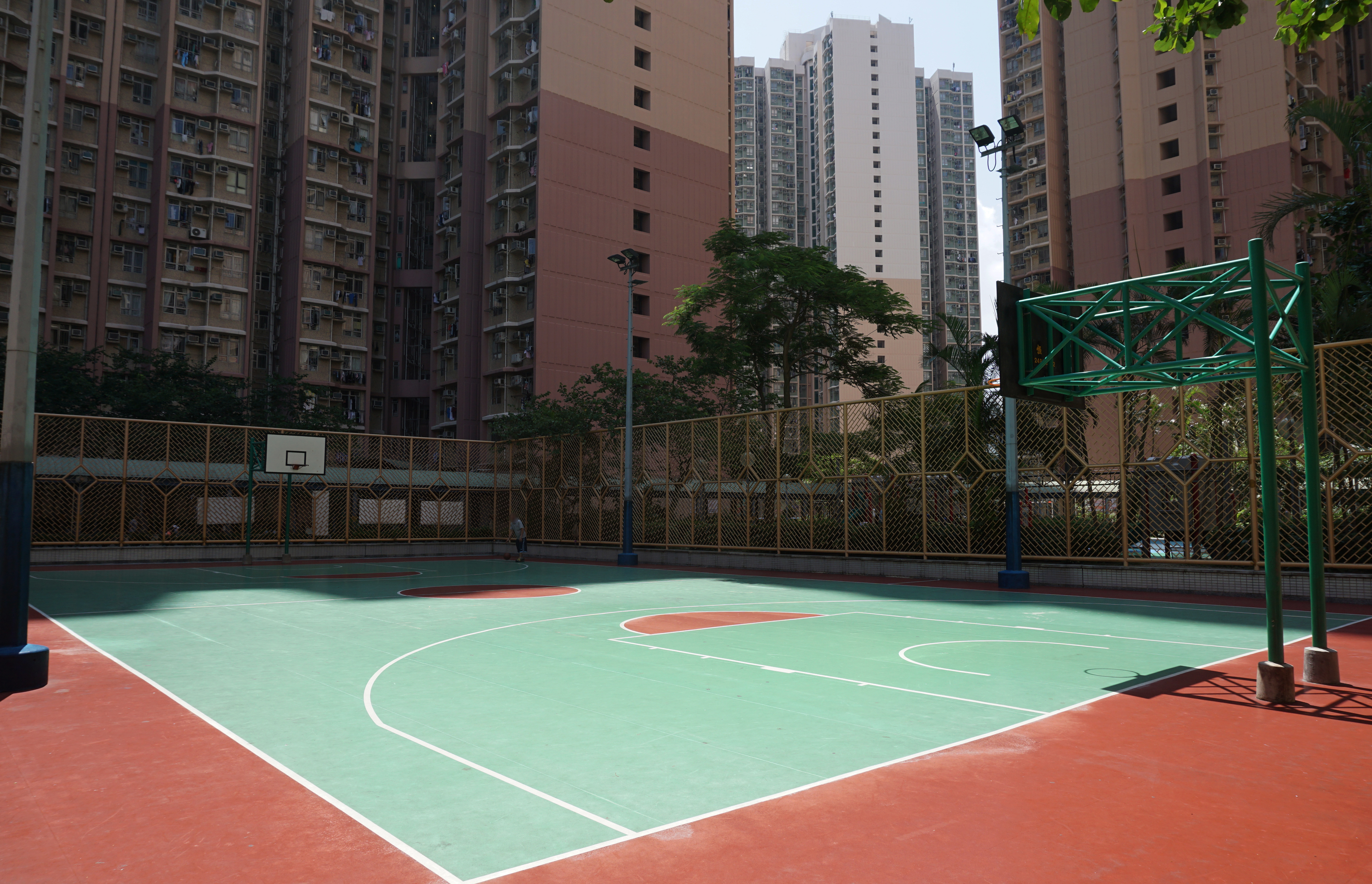 Sau Mau Ping Estate in Kwun Tong District, Hong Kong.